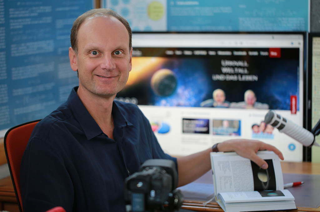 Josef M. Gaßner at work